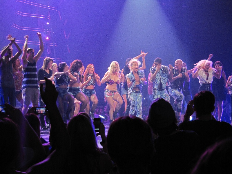 Spears performing "I Wanna Go" with members of the audience.